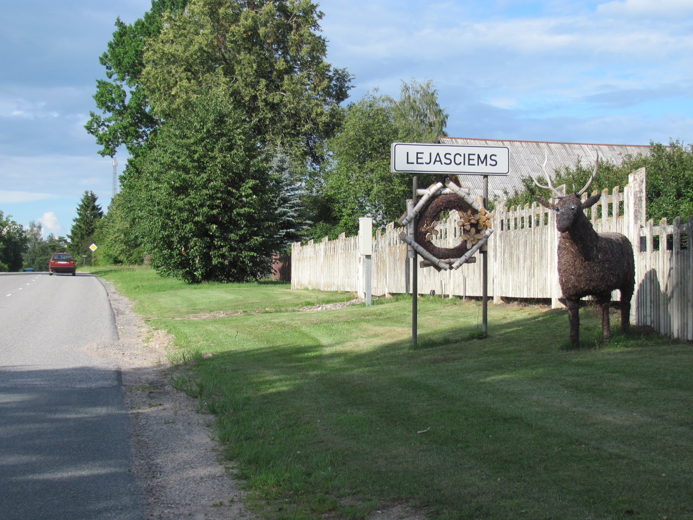 Lejasciems, Southern entrance